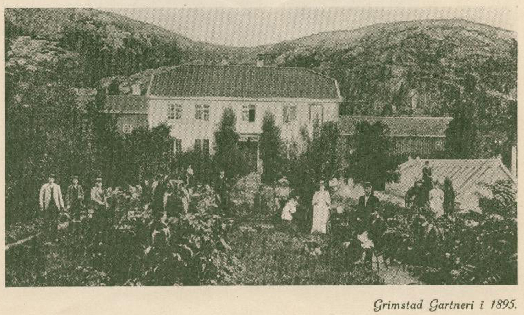 Grimstad Gartneri 1895